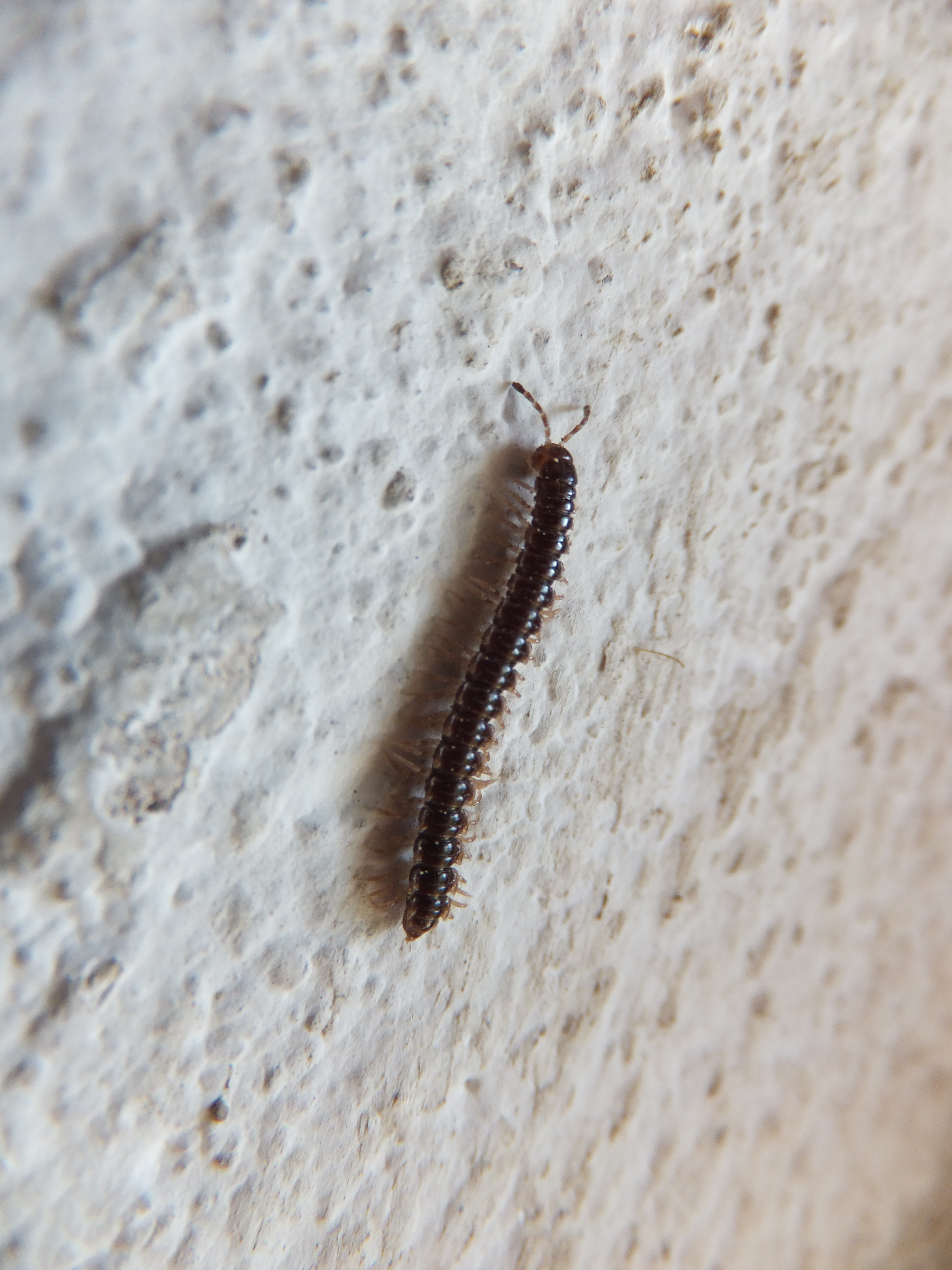 A Oxidus gracilis walking on a wall